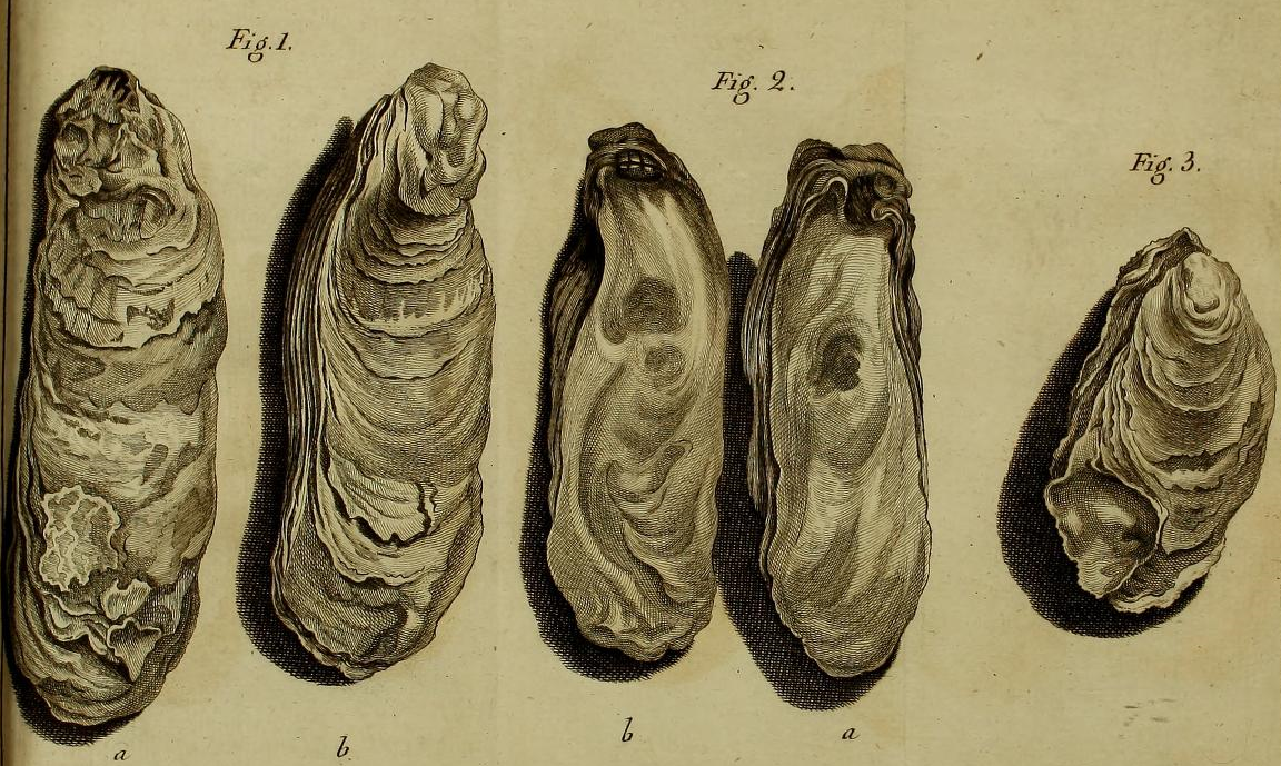 Magallana gigas (Thunberg, 1793), Ostreidae, Bivalvia, Mollusca